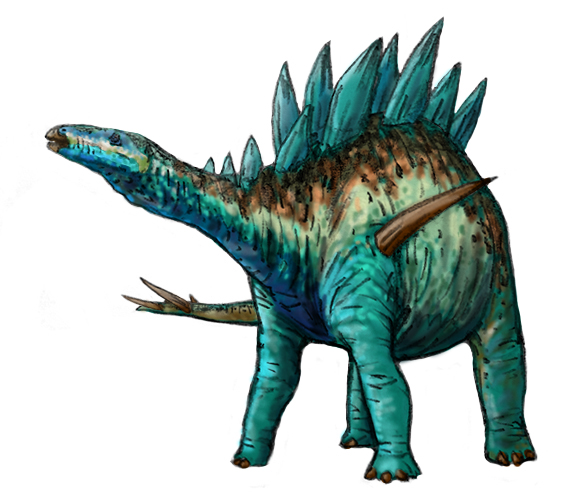 Paranthodon africanus restoration. Body is hypothetical, based on related stegosaurs, mainly Stegosaurus and Kentrosaurus (skeletal diagrams by Gregory S. Paul in The Princeton Field Guide to Dinosaurs, 2010, p. 223-225).